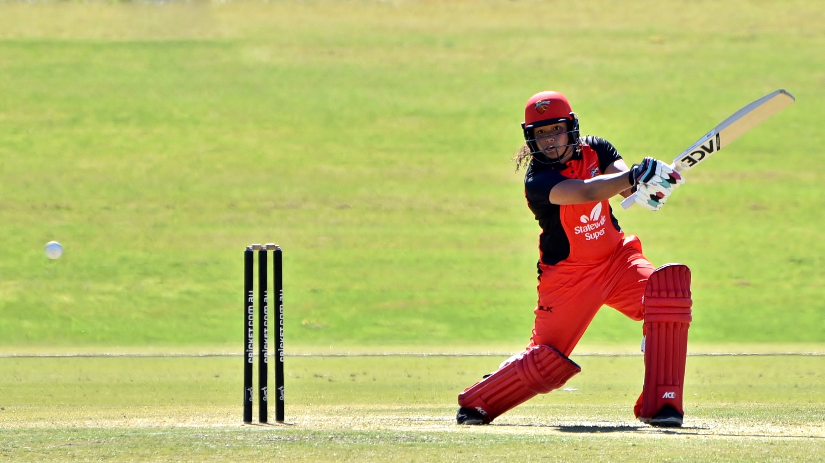 Tabatha Saville batting for the South Australian Scorpions during a WNCL clash against the Victoria Women cricket team at Murdoch University Sports Oval in Perth